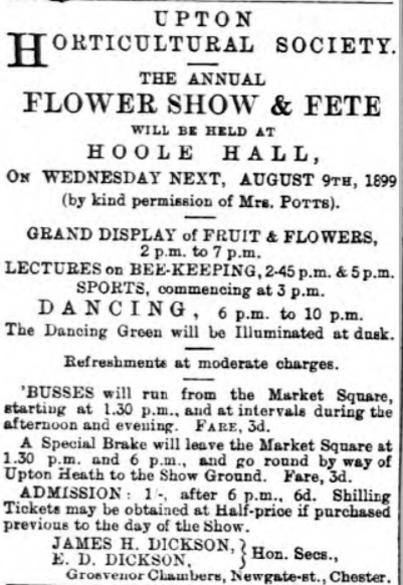 Advertisement for a flower show at Hoole Hall, Chester in 1899